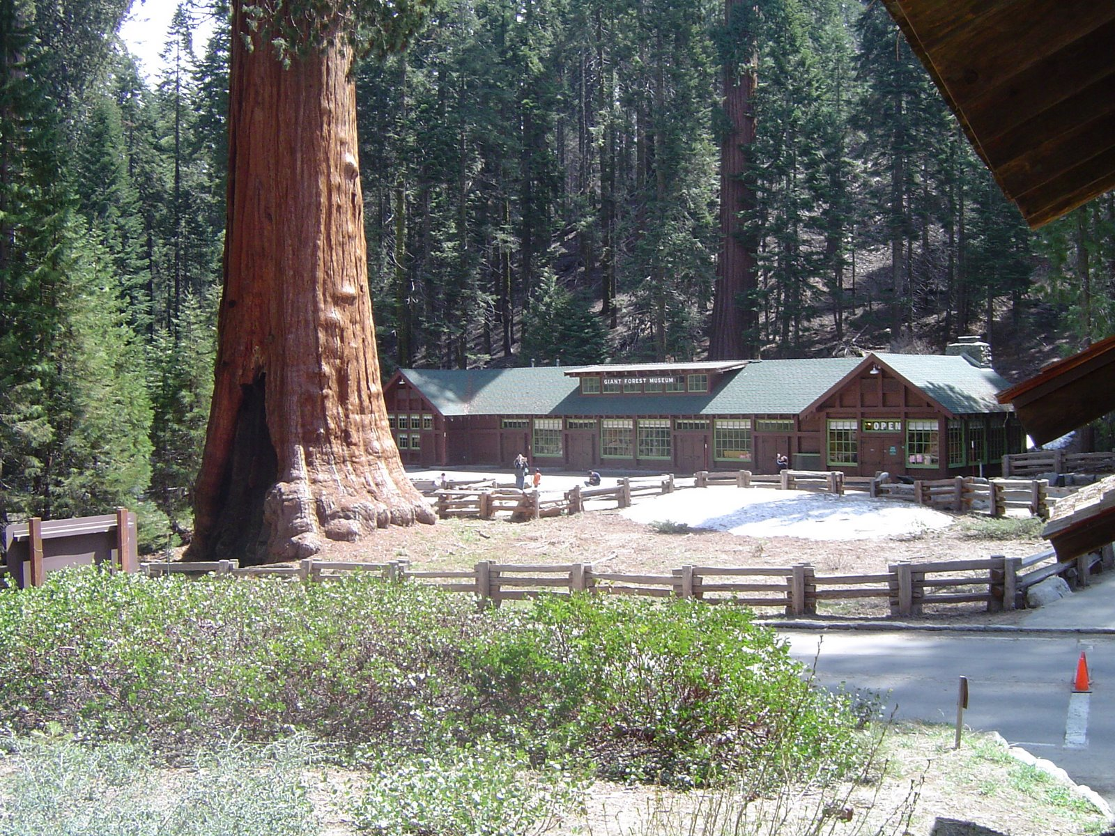 Giant Sequoia trunk near the Giant Forest Visitor's Center, in the Giant Forest Village-Camp Kaweah Historic District, Sequoia National Park, California.